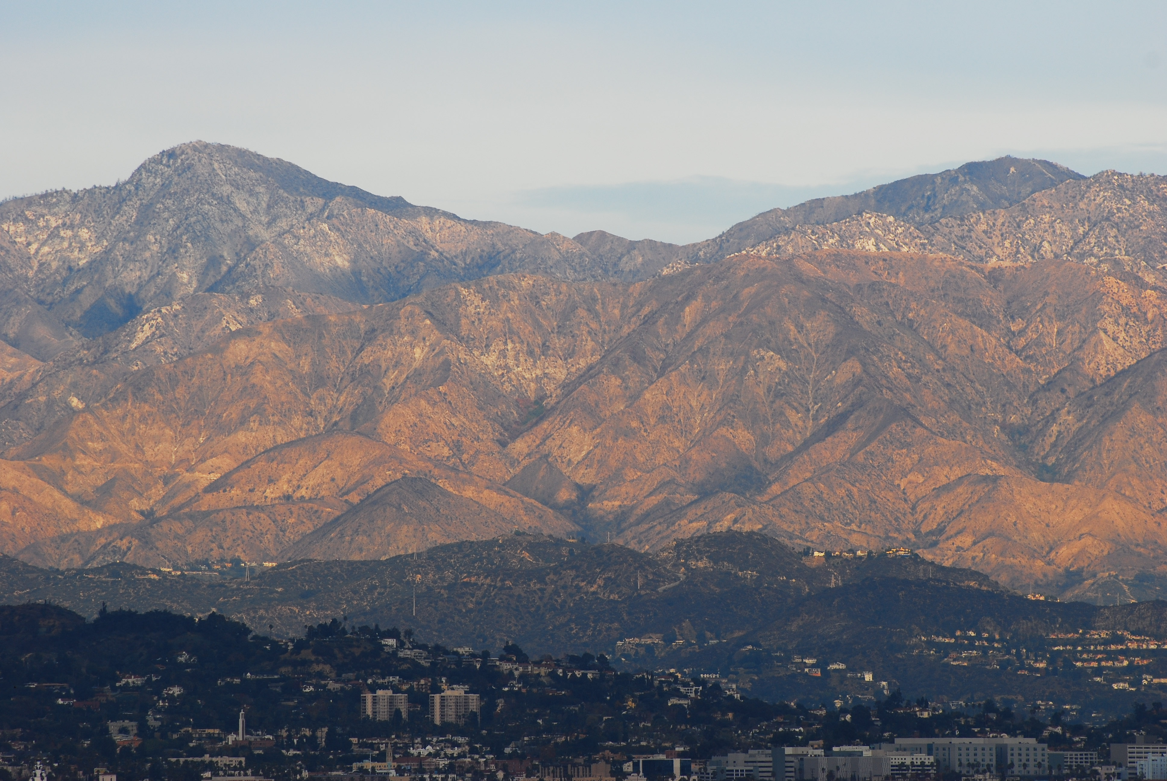 Late afternoon sunlight on the San Gabriel Mountains, from Baldwin Hills Scenic Overlook — Los Angeles, California.